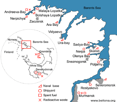 Map of Russian Northern Fleet bases. From the Bellona Foundation, Reuse and reprint recommended provided source is stated.